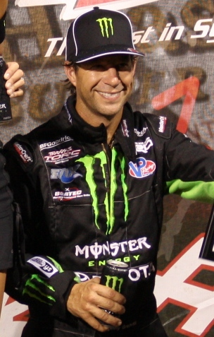 Off-road racer Johnny Greaves (racer) after his second place finish in the PRO 4x4 division at Oshkosh Sunnyview Expo TORC race in 2010.